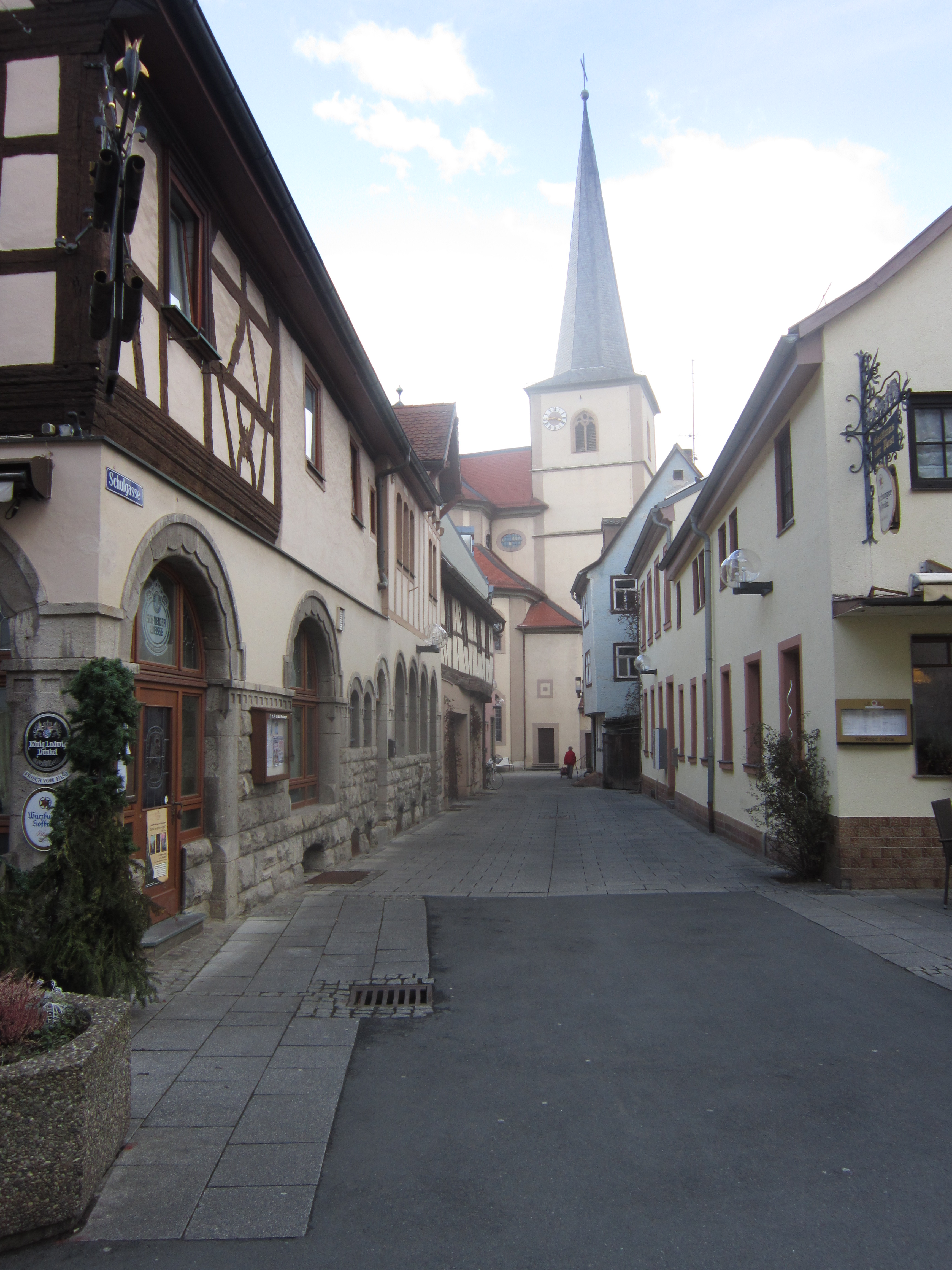 The "Schulgasse" the German spa town of Bad Kissingen in Lower Franconia (Bavaria).